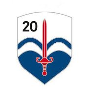 20 natresbat emblem